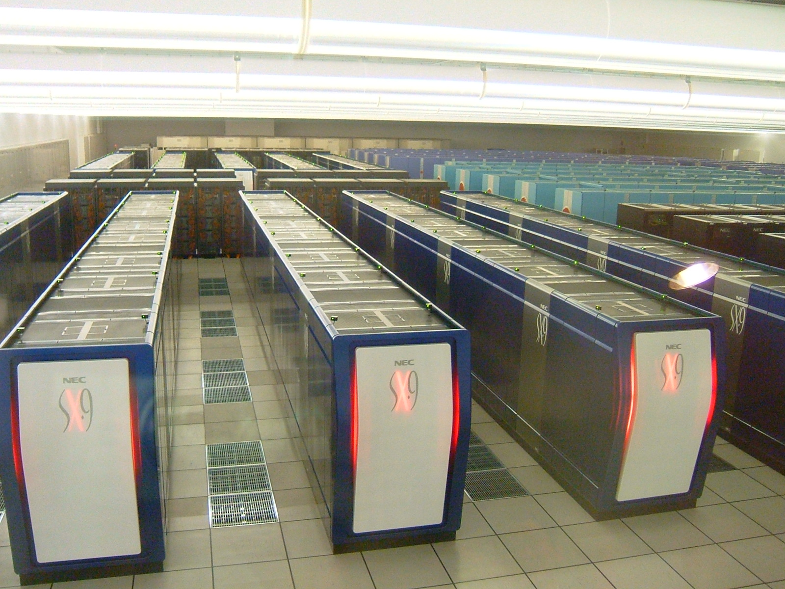 Earth simulator at JAMSTEC Yokohama Institute for Earth Sciences